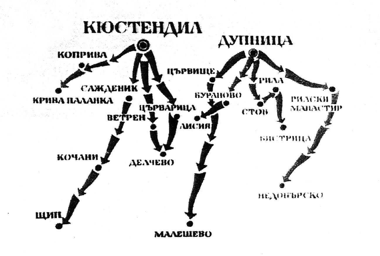 map